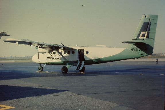 De Havilland DHC-6 (Twin Otter) N127PM Catalog #: Quastler224 Manufacturer: De Havilland Designation: DHC-6 (Twin Otter) Airline: Pilgrim Airlines Serial Number: N127PM Details: "Date of photo: 04/14/1976 ; Note reads, ""La Guardia.""" Photo by I. E. Quastler